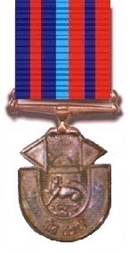 Bir Sreshtho Medal